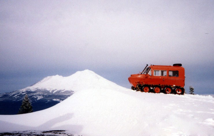 Kristi KT3, still used commercially to repair radio and microwave array towers. The following text was removed from the image itself per Wikipedia's image use policy: At Bradley Mtn, Dunsmuir, CA with Mt. Shasta in background 1959 Kristi KT-3 (S/N 0048)